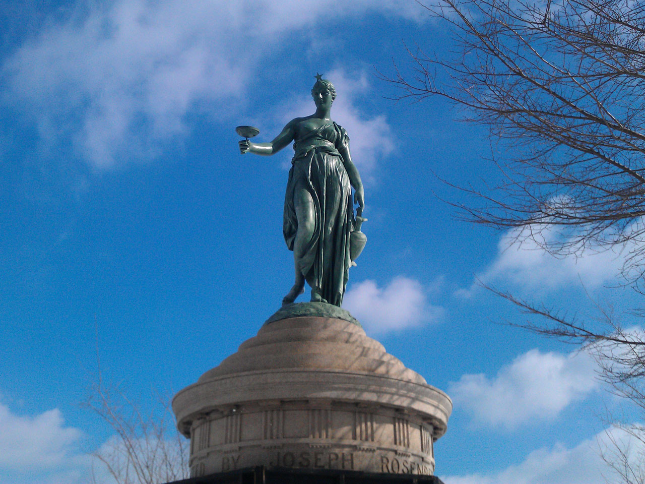 Bronze statue of the Greek goddess Hebe stands atop a Greek temple-inspired base, The Rosenberg Fountain, Grant Park, Chicago